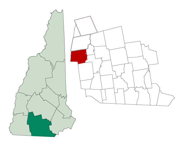 Created from Boundary/Border Outline Files of the Libre Map Project which held a BY-SA creative commons license. Data origionally from 2000 US Census boundary data.